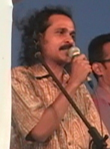 Banglaeshi band Dalchhut performing in a concert at the American International University-Bangladesh